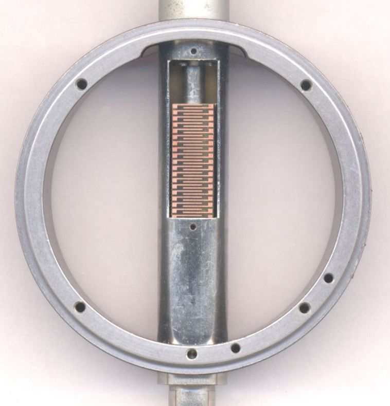 linear encoder, capacitance range 13 mm division 0.01 mm